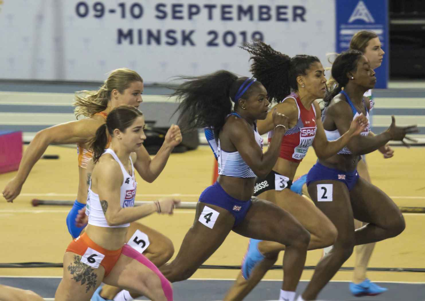 Women's 60m final, Glasgow 2019